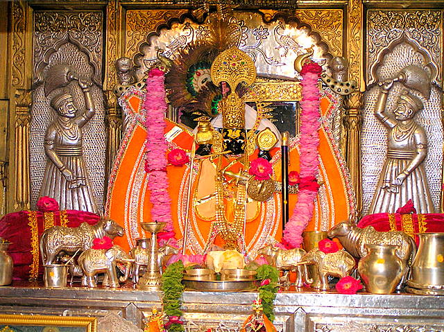 Photo of Shri Sanwaliaji at Rajasthan